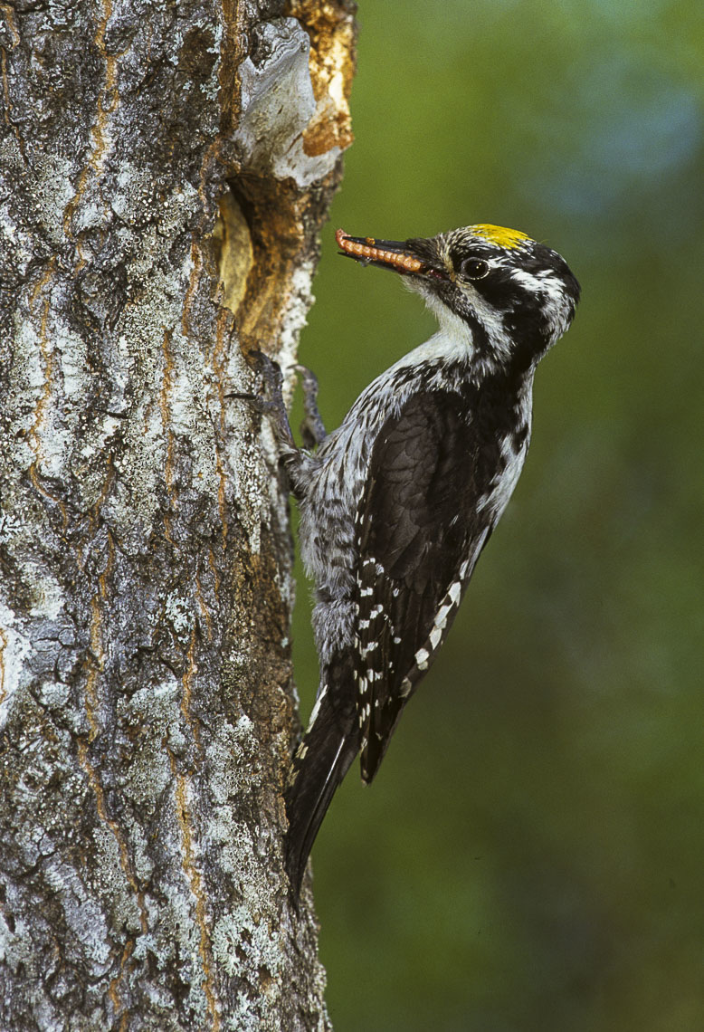 Three-toed Woodpecker - Finlandia 0005 (3)